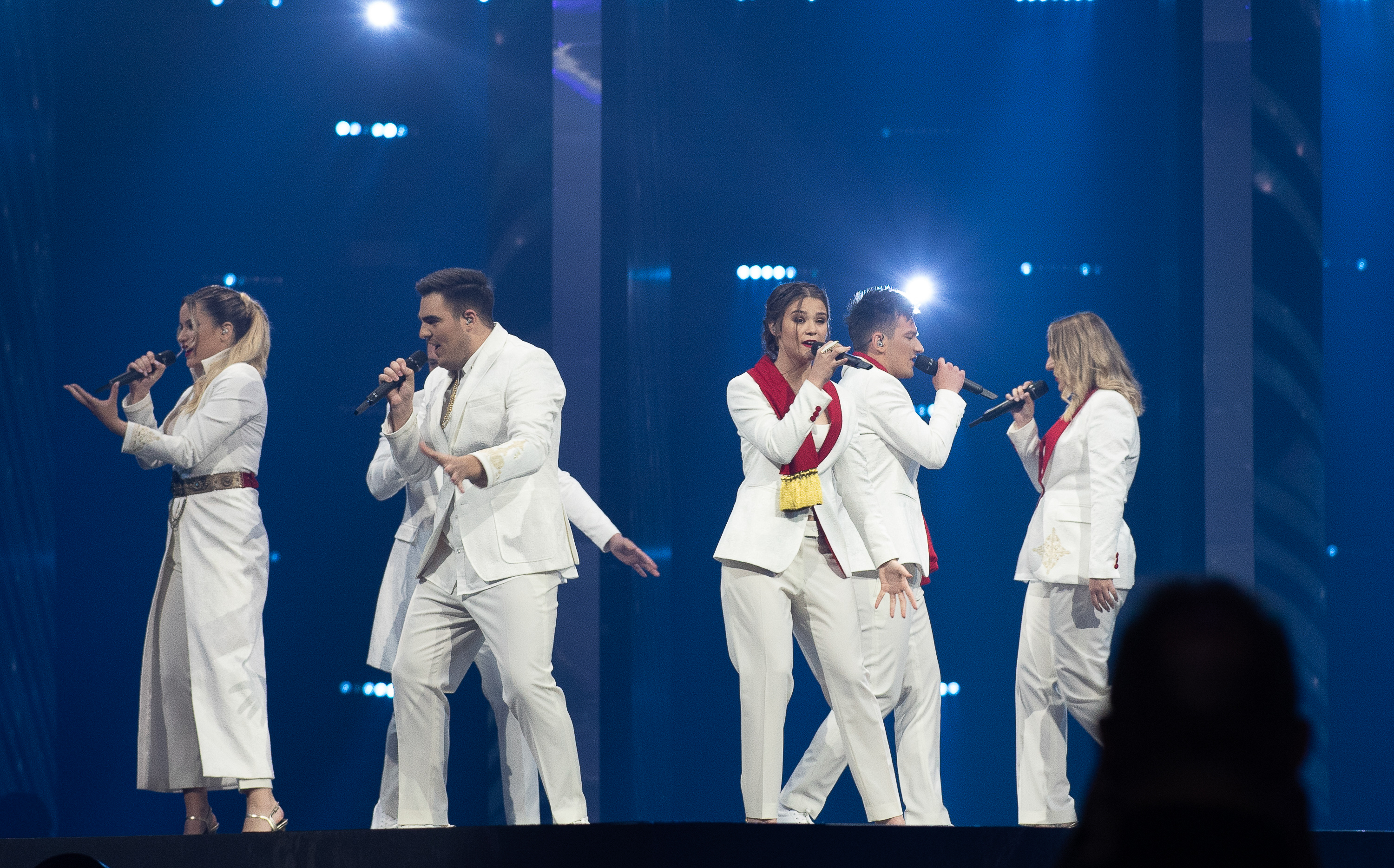 At the 2019 Eurovision Song Contest Semi-final 1 dress rehearsal